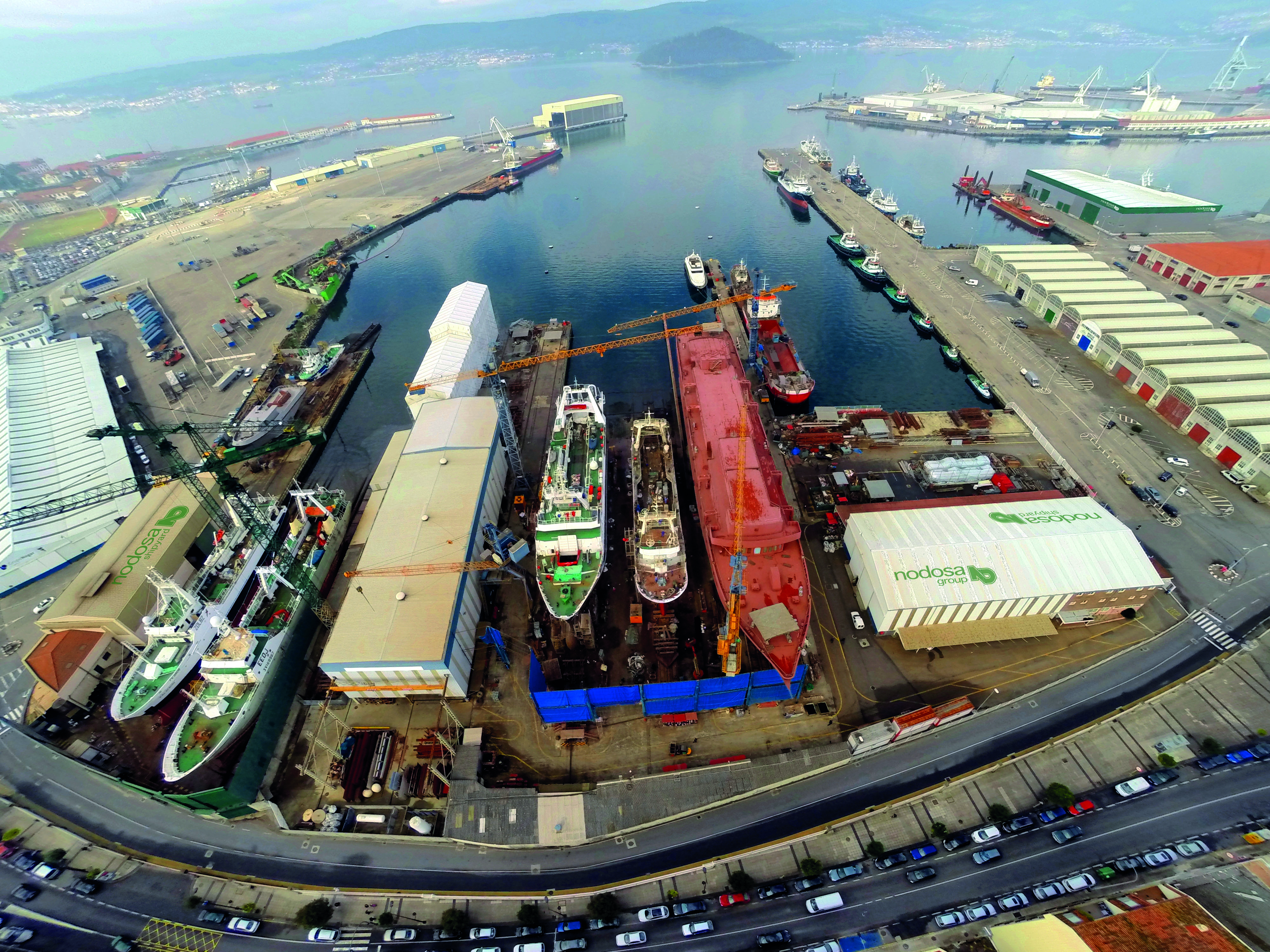 DCIM\100GOPRO